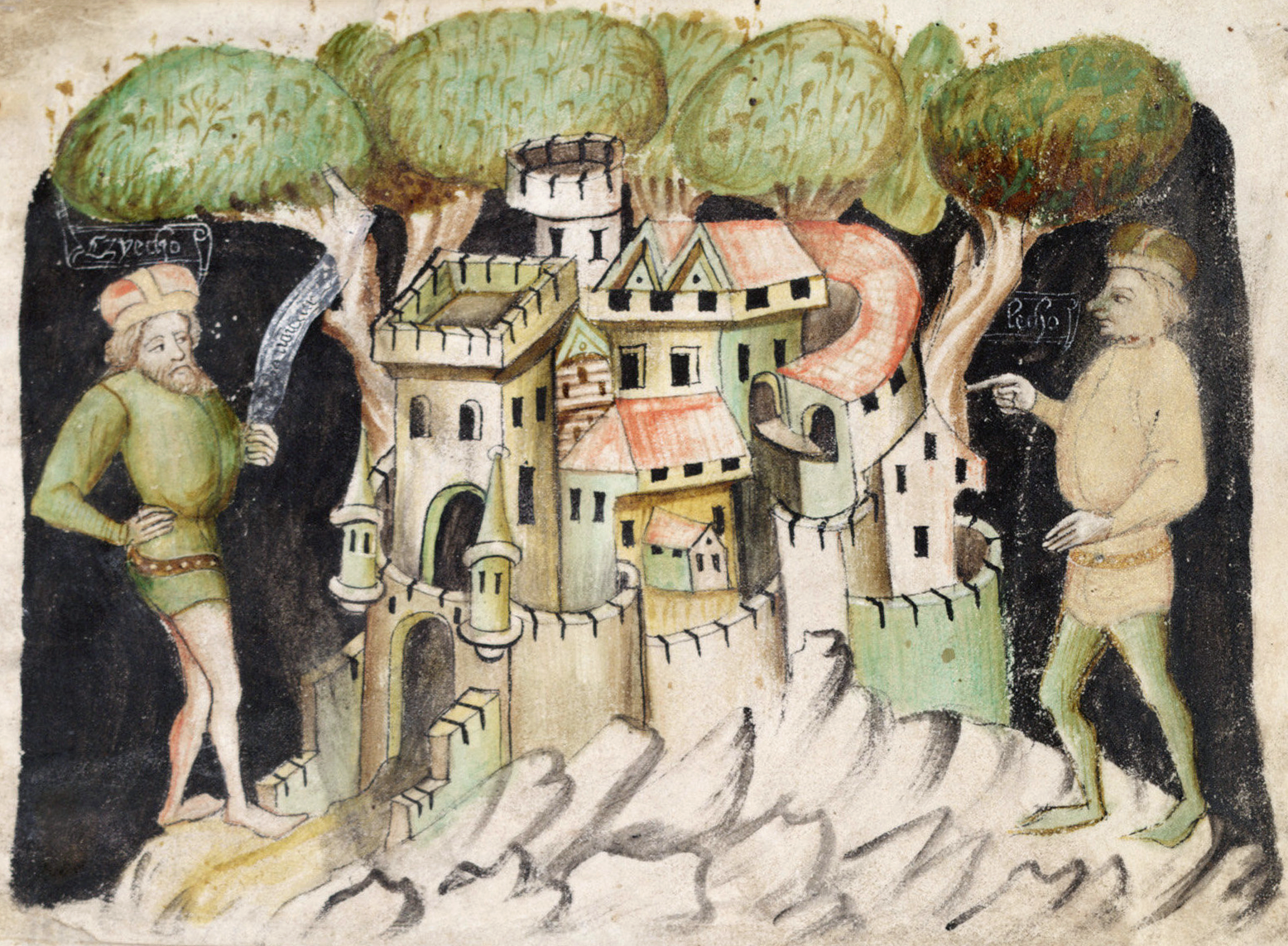 Illustration from Chronica Boemorum